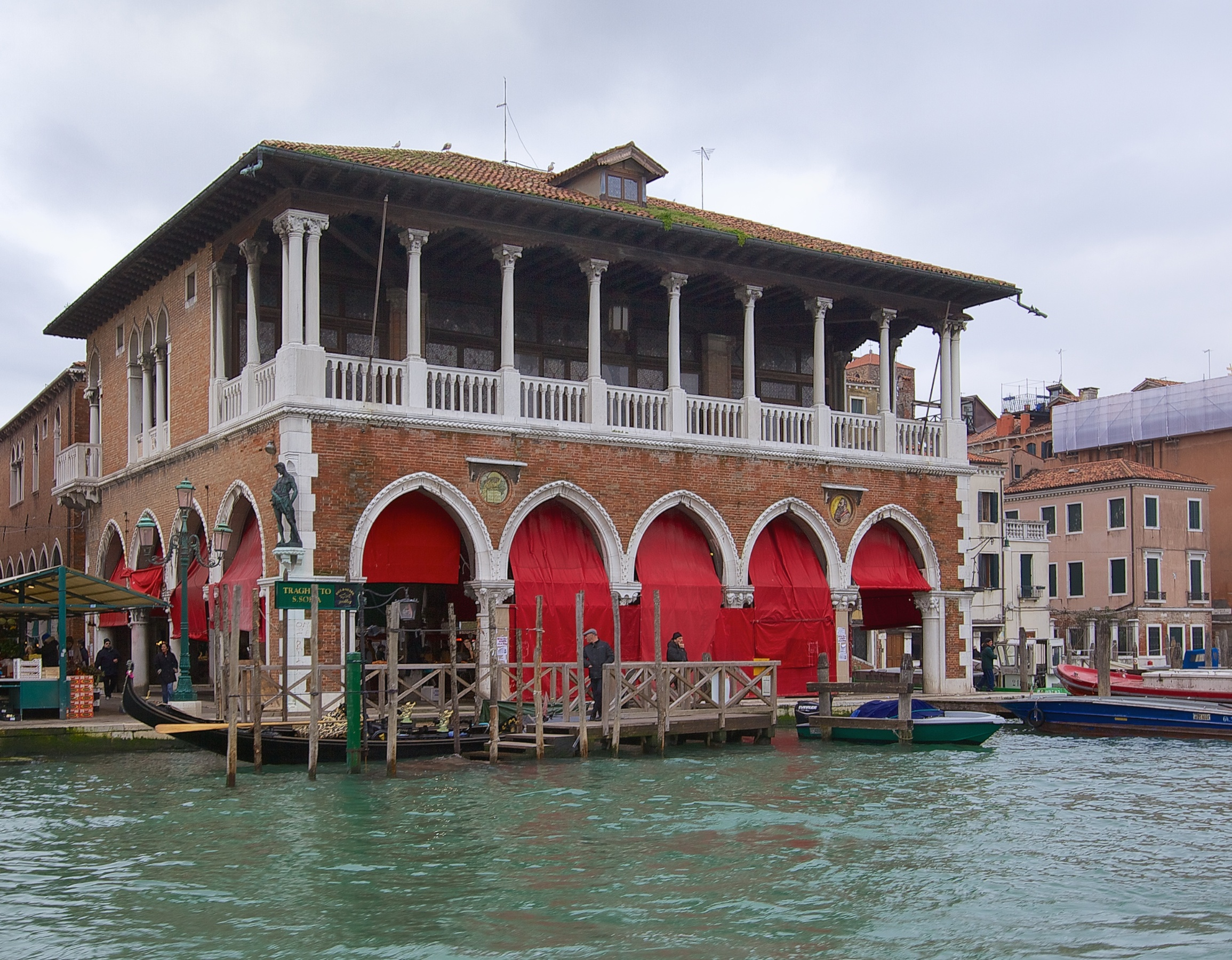 Pescheria - Fish Market / Venice, Italy